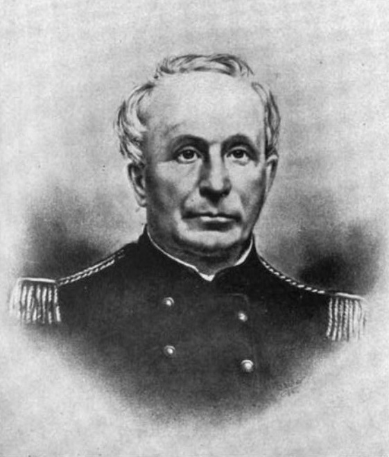 Jonah Sanford (New York Congressman)